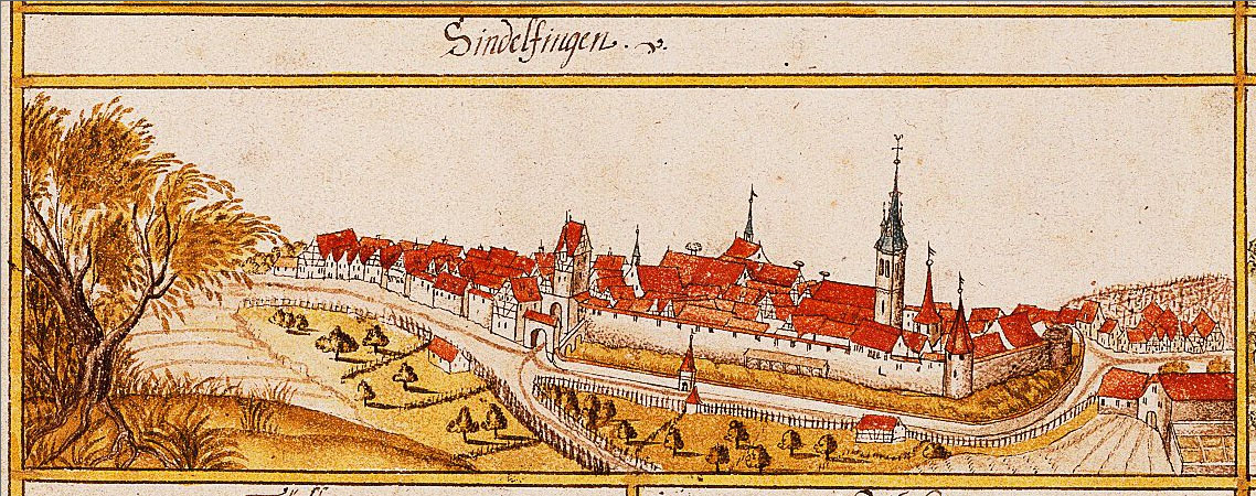 View of Sindelfingen from the forest register books created by Andreas Kieser